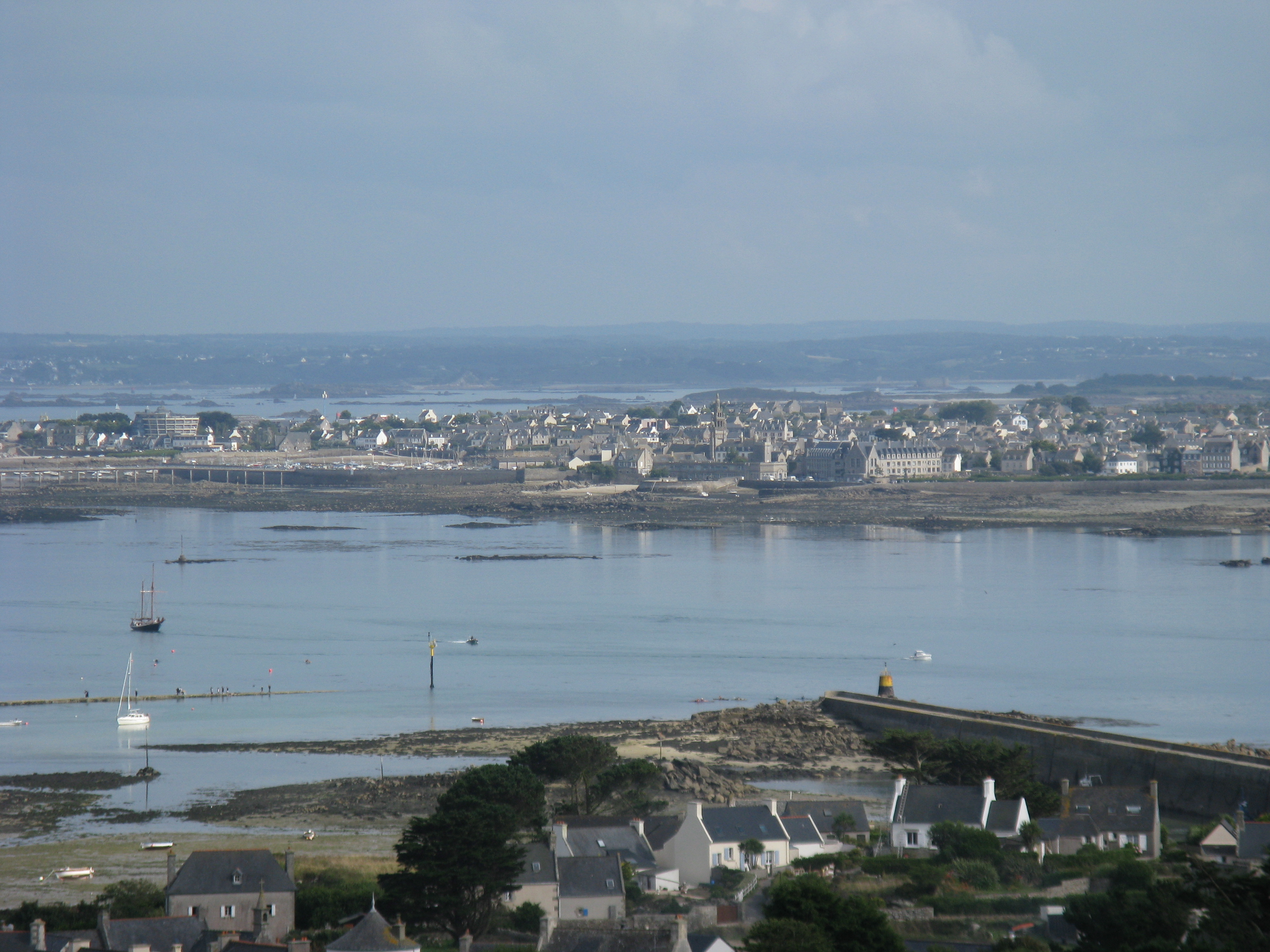 General overview of Roscoff from the lighthouse of the Batz island (France)